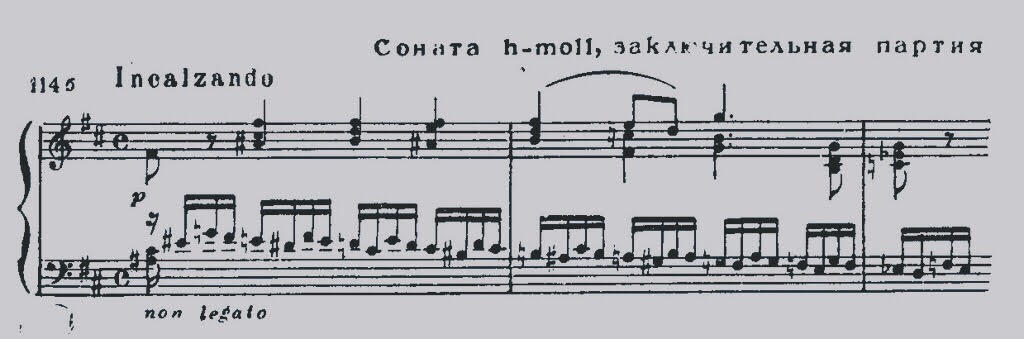 Music manuscript